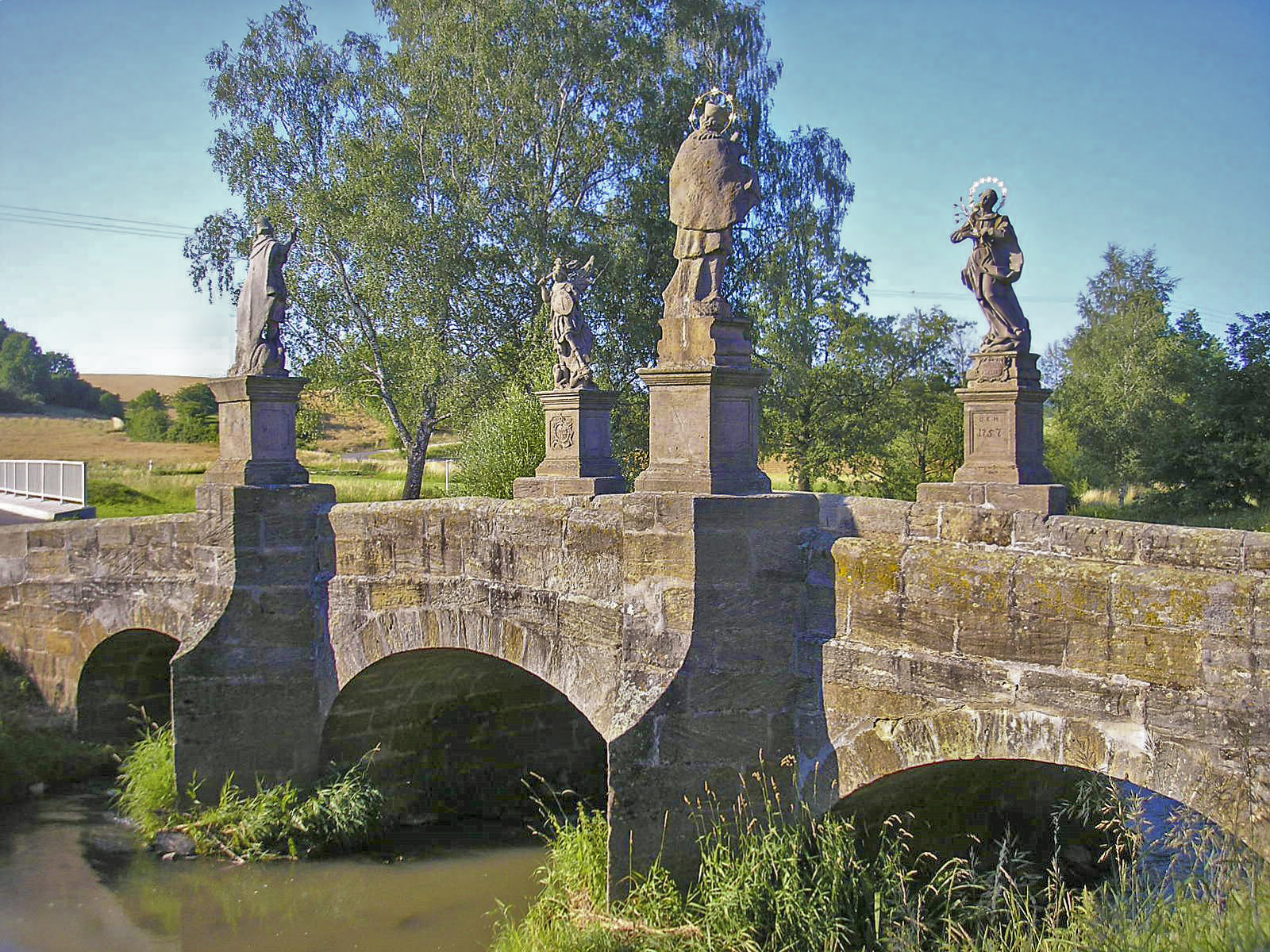 Frickendorf (Ebern, Landkreis Haßberge, Lower Franconia, Germany) Historic bridge over the river Baunach (1757). Total view